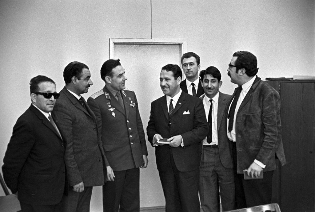 “Cosmonaut Vladimir Komarov and Chilean journalists”. Chilean journalists meeting with Soviet cosmonaut Vladimir Komarov (third on the left) in news agency "Novosti".